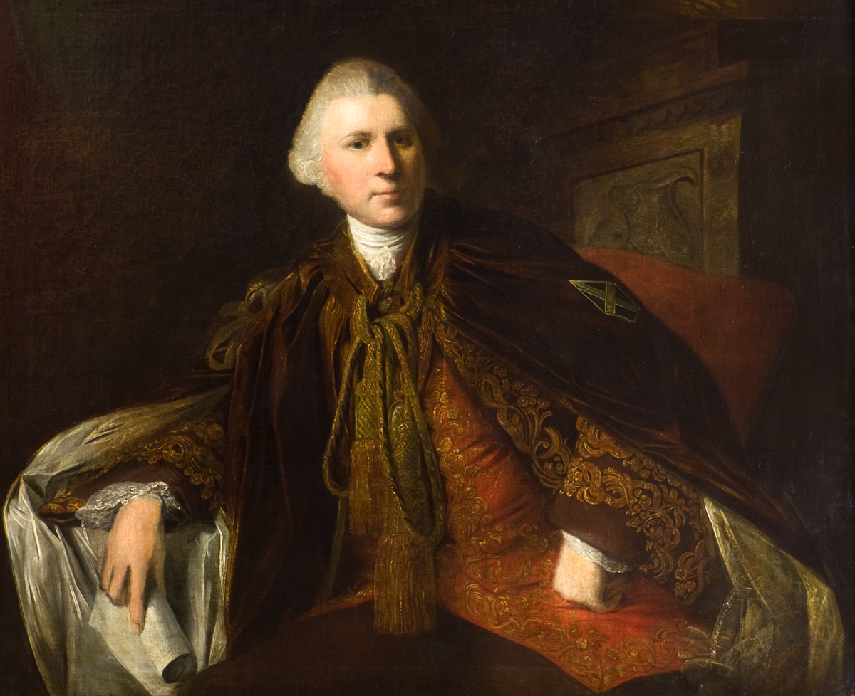 Portrait of George Dempster of Dunnichen (1732–1818), Scottish lawyer and politician.